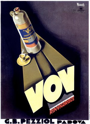 Commercial ad for Vov Pezziol liqueur, Italy. Opus: Nizzoli.